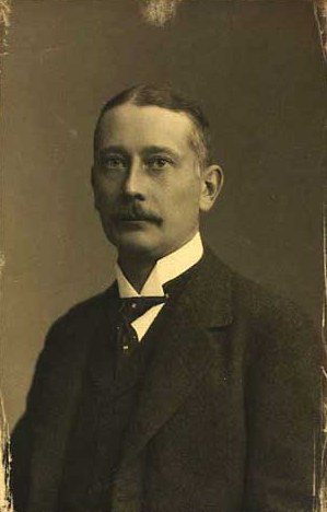 Joachim Wedell-Neergaard (1862-1926), Danish Baron and estate owner